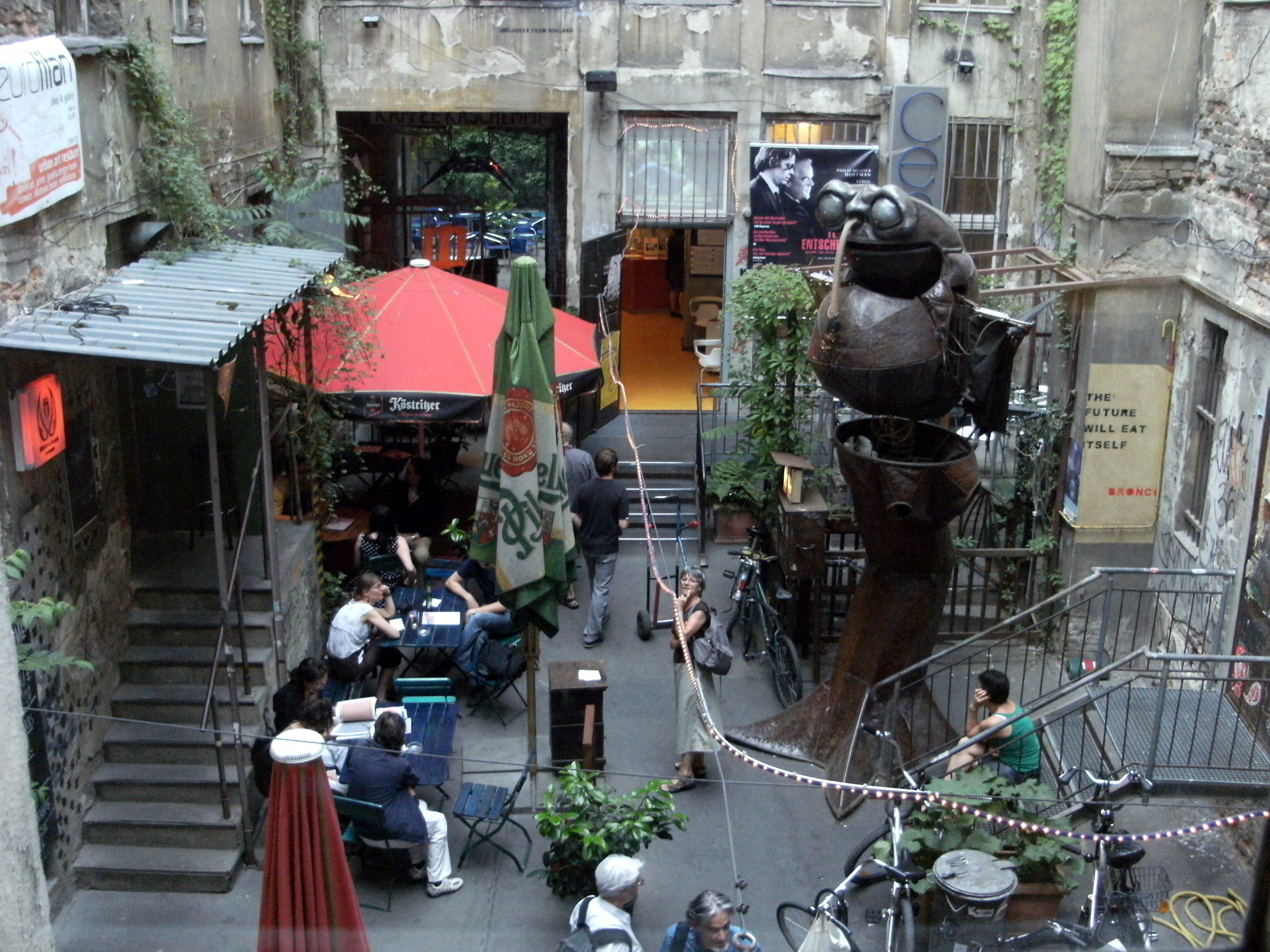 Berlin in june 2008.